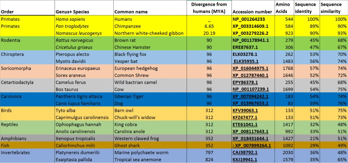 An updated table showing POTEB orthologs found via NCBI BLAST.